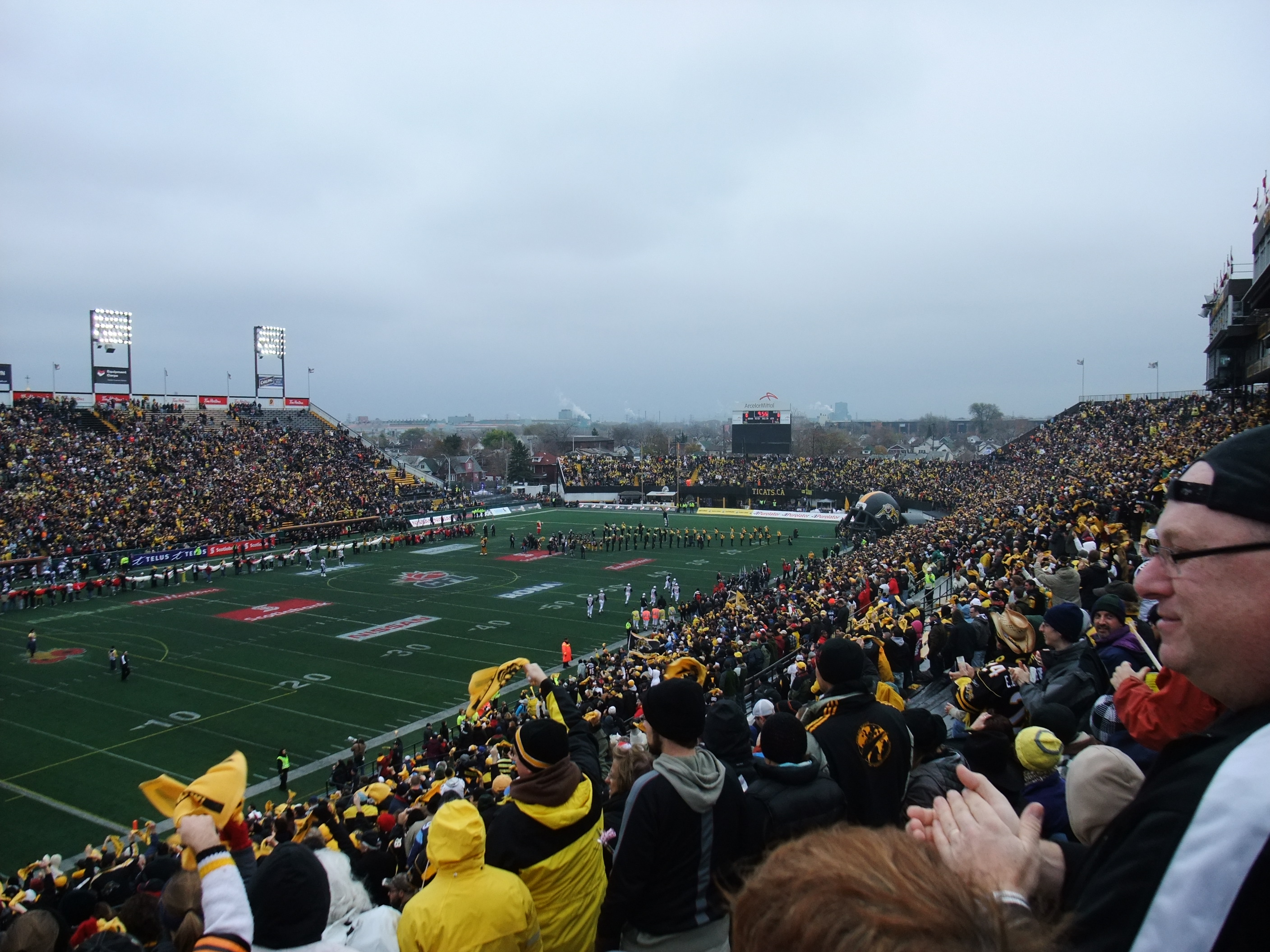 Ivor Wynne Stadium - Hamilton vs. Toronto